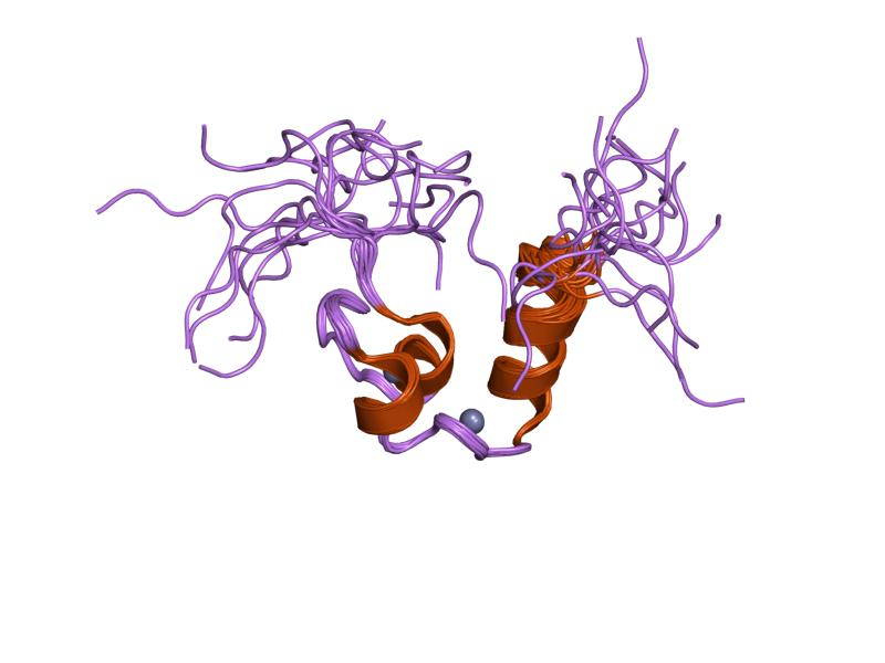 Cartoon representation of the molecular structure of protein registered with 1lpv code.